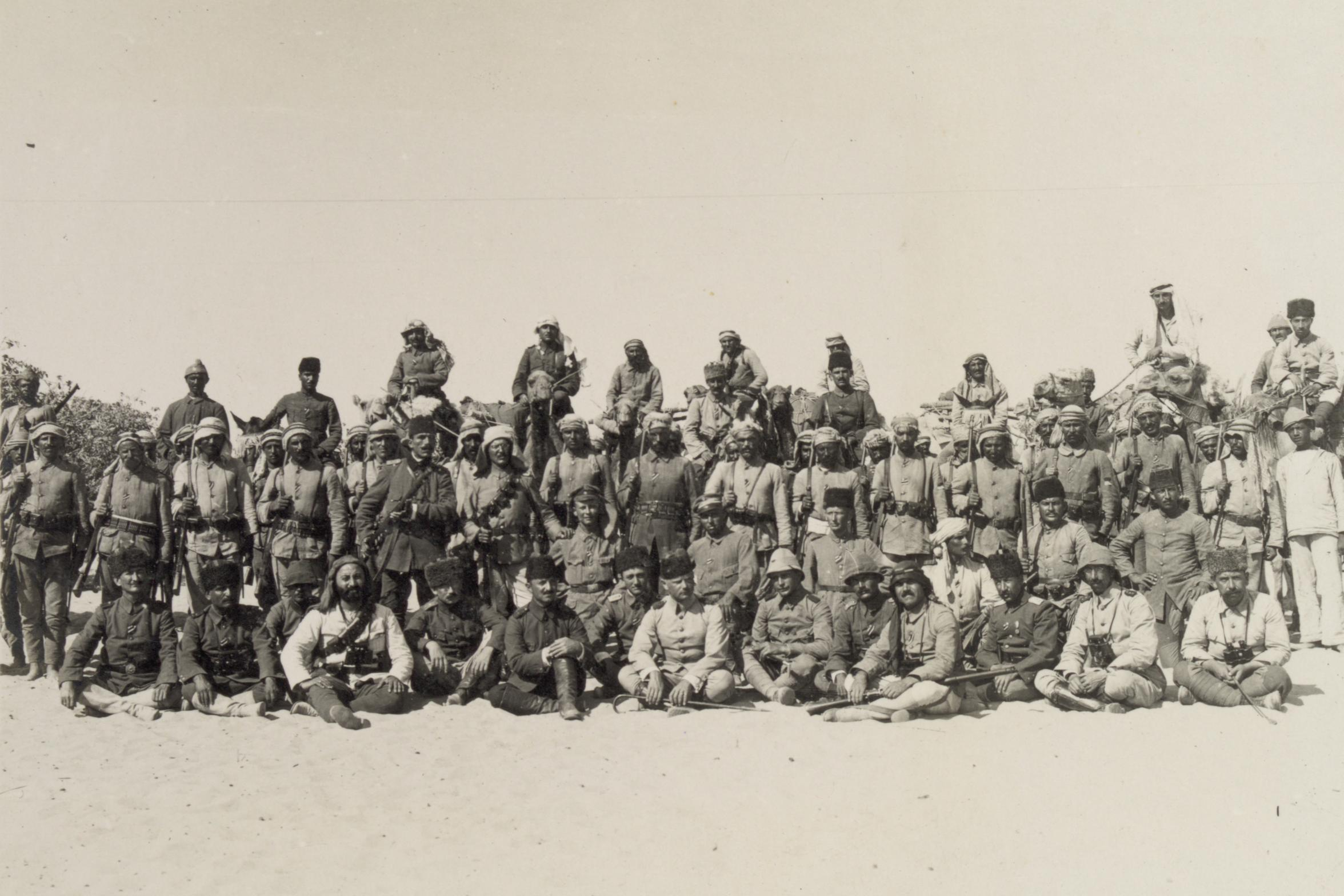 Staff of Kress von Kressenstein at El Arish, 1916. LC-DIG-ppmsca-13709-00065 (digital file from original on page 18, no.64)